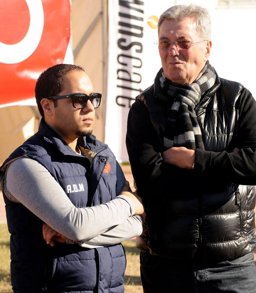 anis ben Mlik avec Roger Lemerre 2013-2014